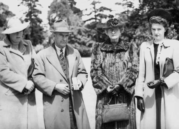 The family of Bruce Kingsbury accepting the Victoria Cross on his behalf.